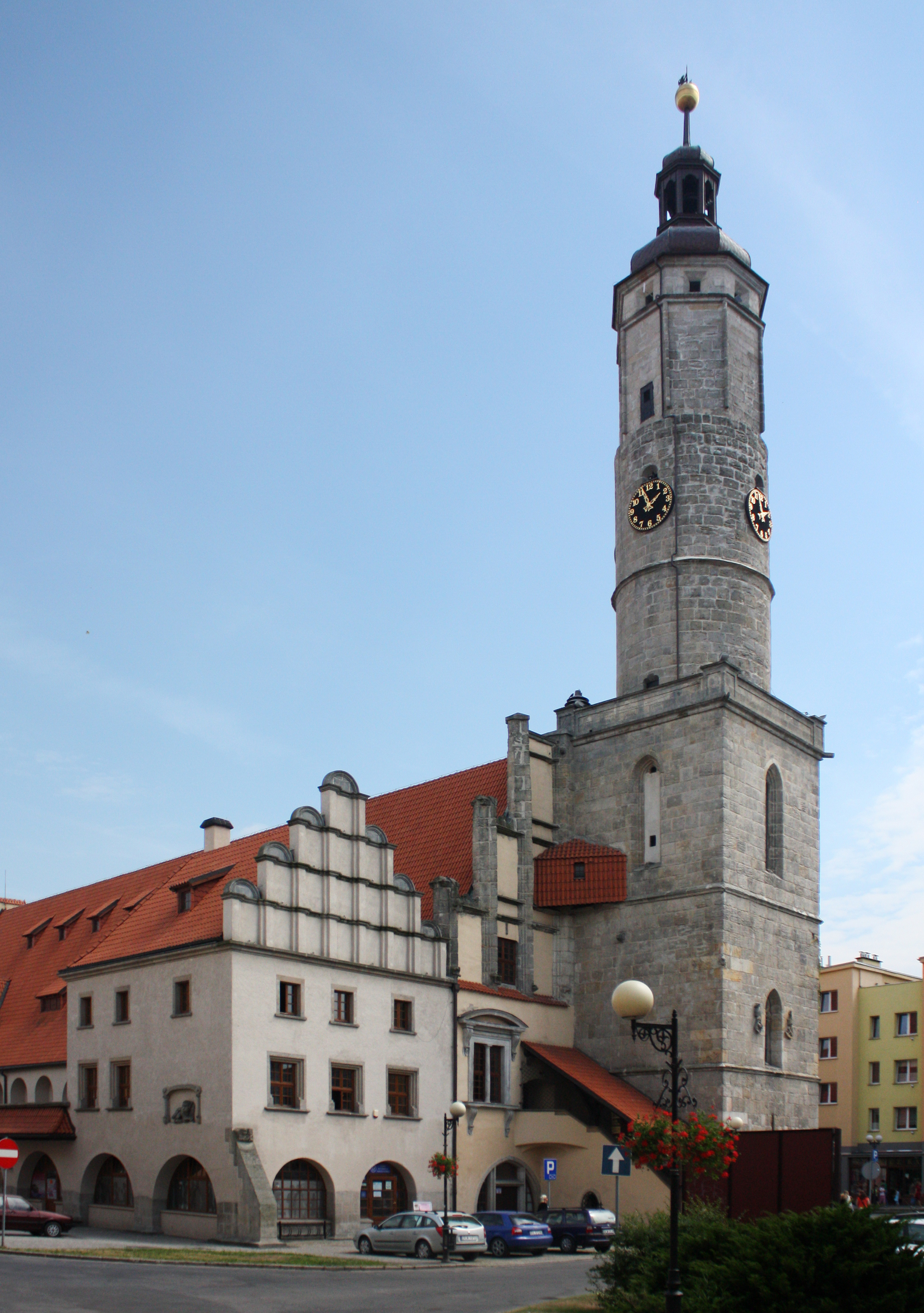 This photo of Lower Silesian Voivodeship was taken during Wikiexpedition 2013 set up by Wikimedia Polska Association. You can see all photographs in category Wikiekspedycja 2013. English | Polski | +/−